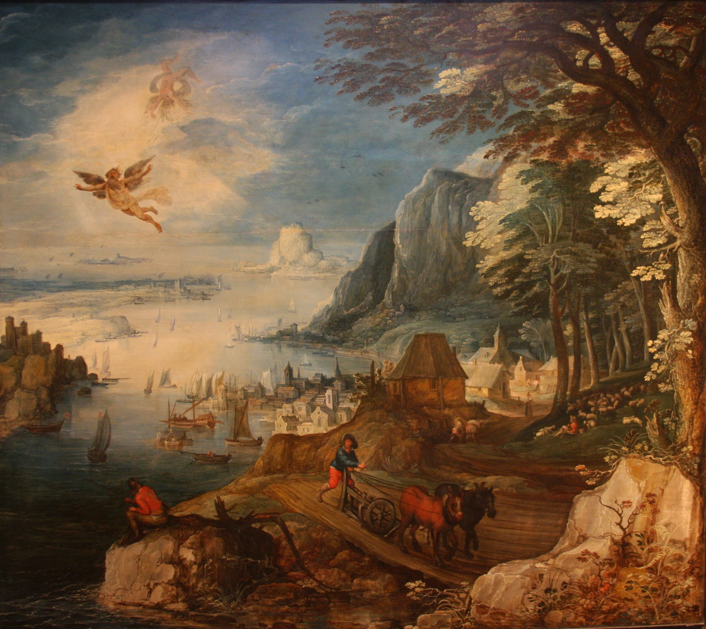 Landscape with the fall of Icarus